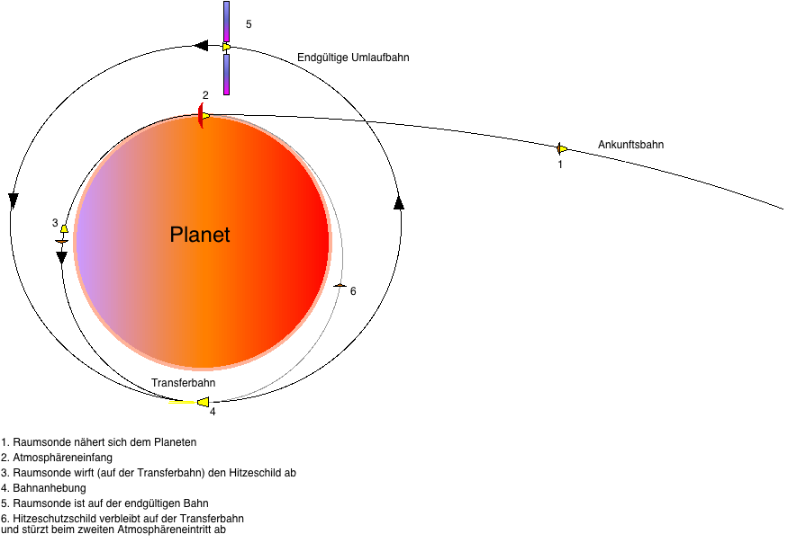 Aerocapture The different steps at an Aerocapture.